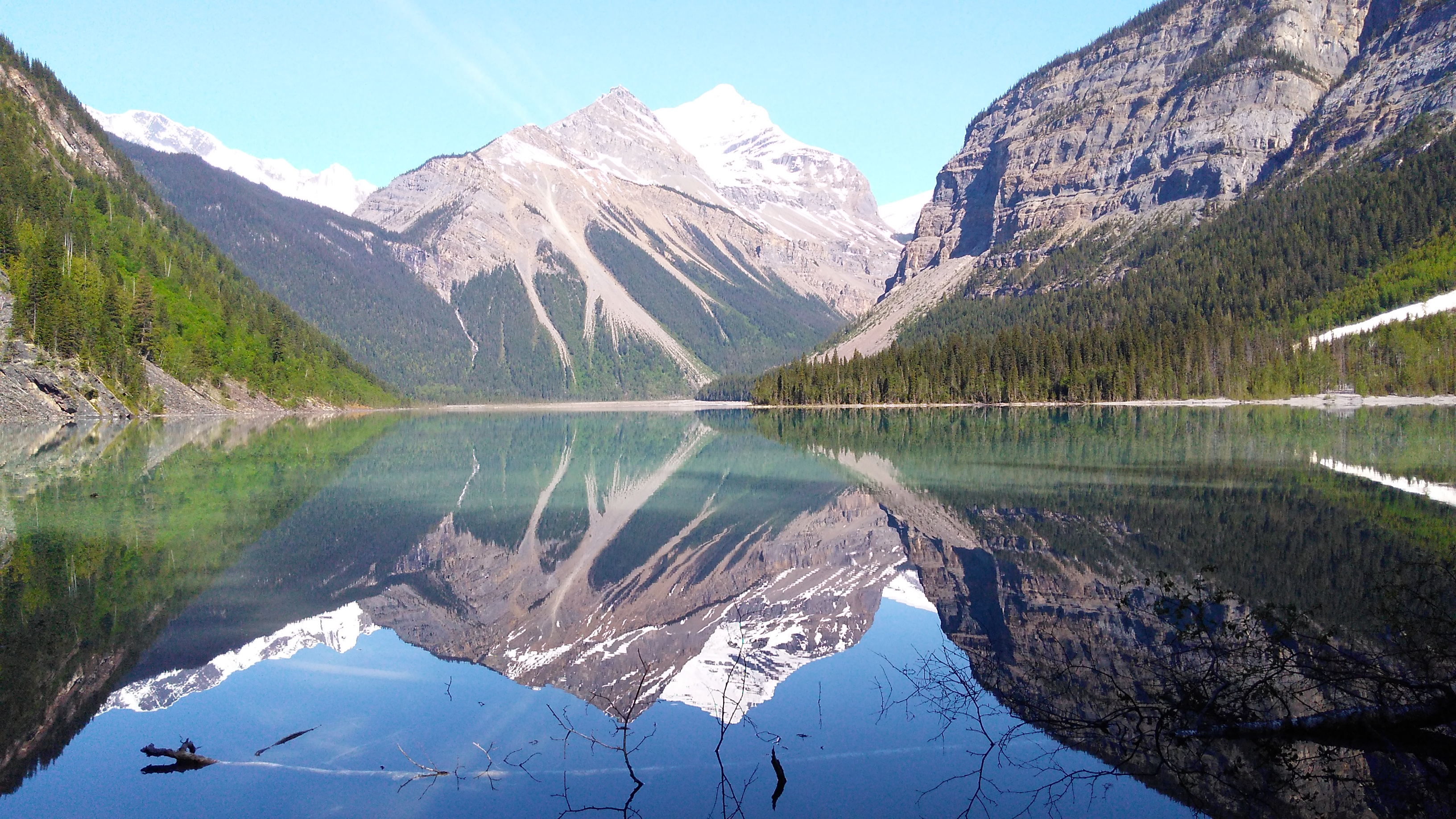 Mount Robson National Park - looking across Kinney Lake This photo was taken in a protected area in Canada, Wikidata item Mount Robson Provincial Park (Q1950710)